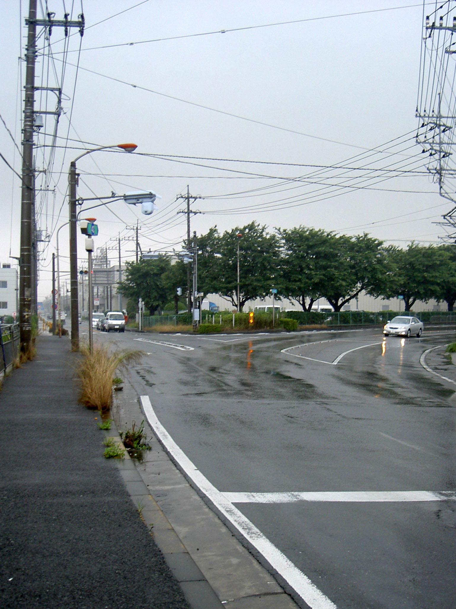 The junctuon of Kanagawa prefectural road route 43 and route 408 ja: 神奈川県道43号藤沢厚木線と神奈川県道408号社家停車場線の分岐点